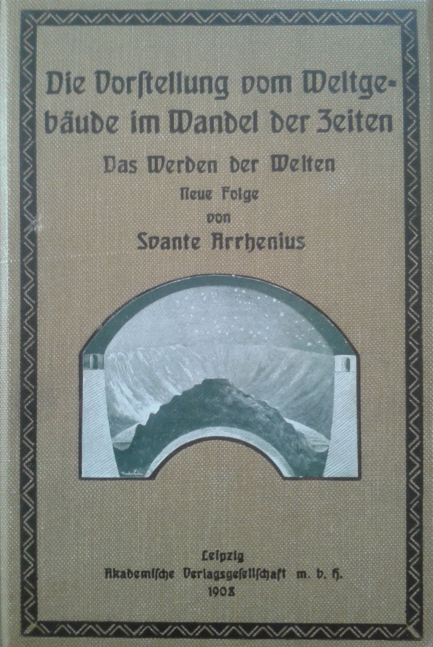 Book Cover 1908.